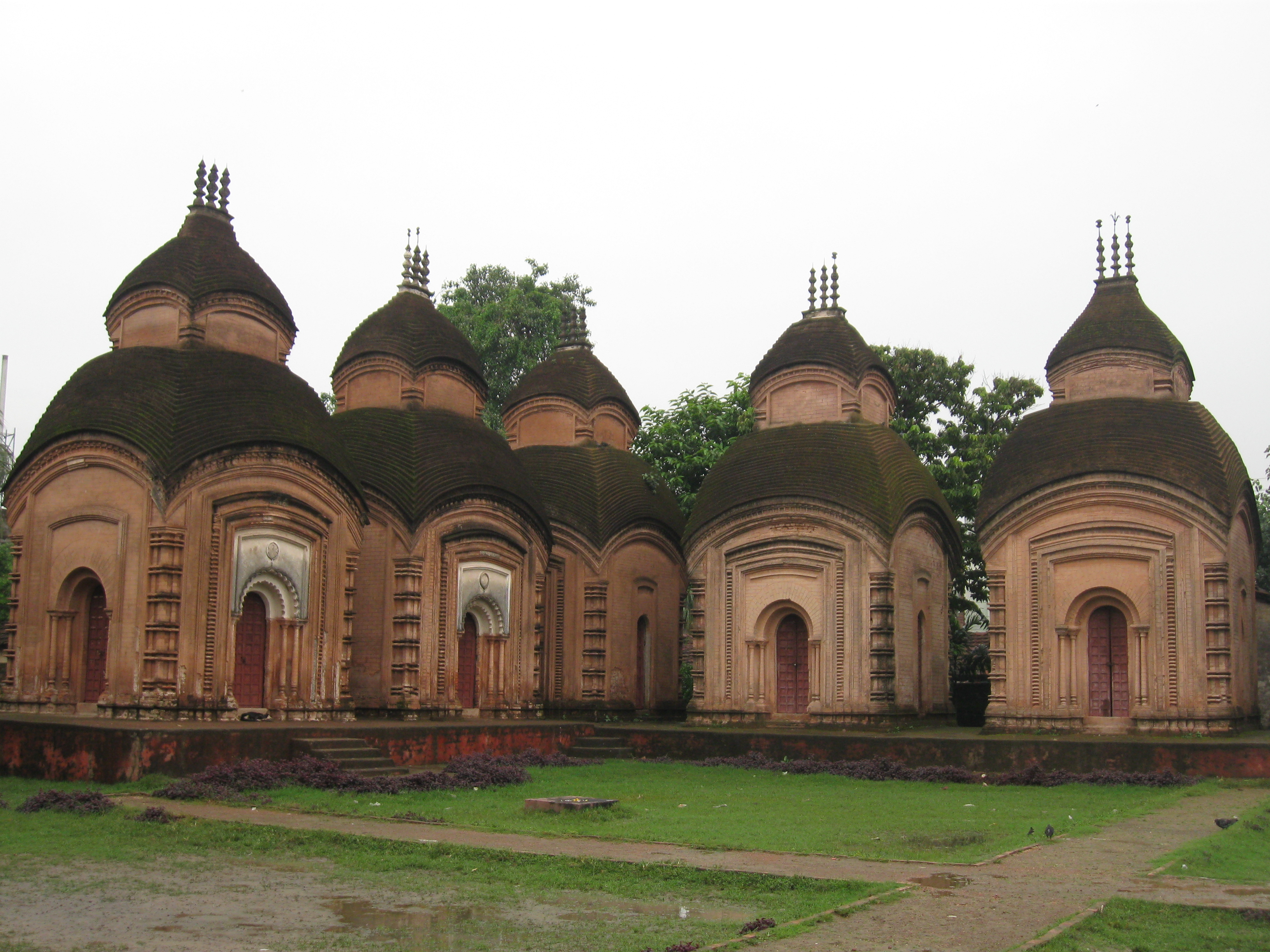 26 siva temple